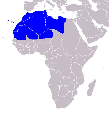 Tamazgha